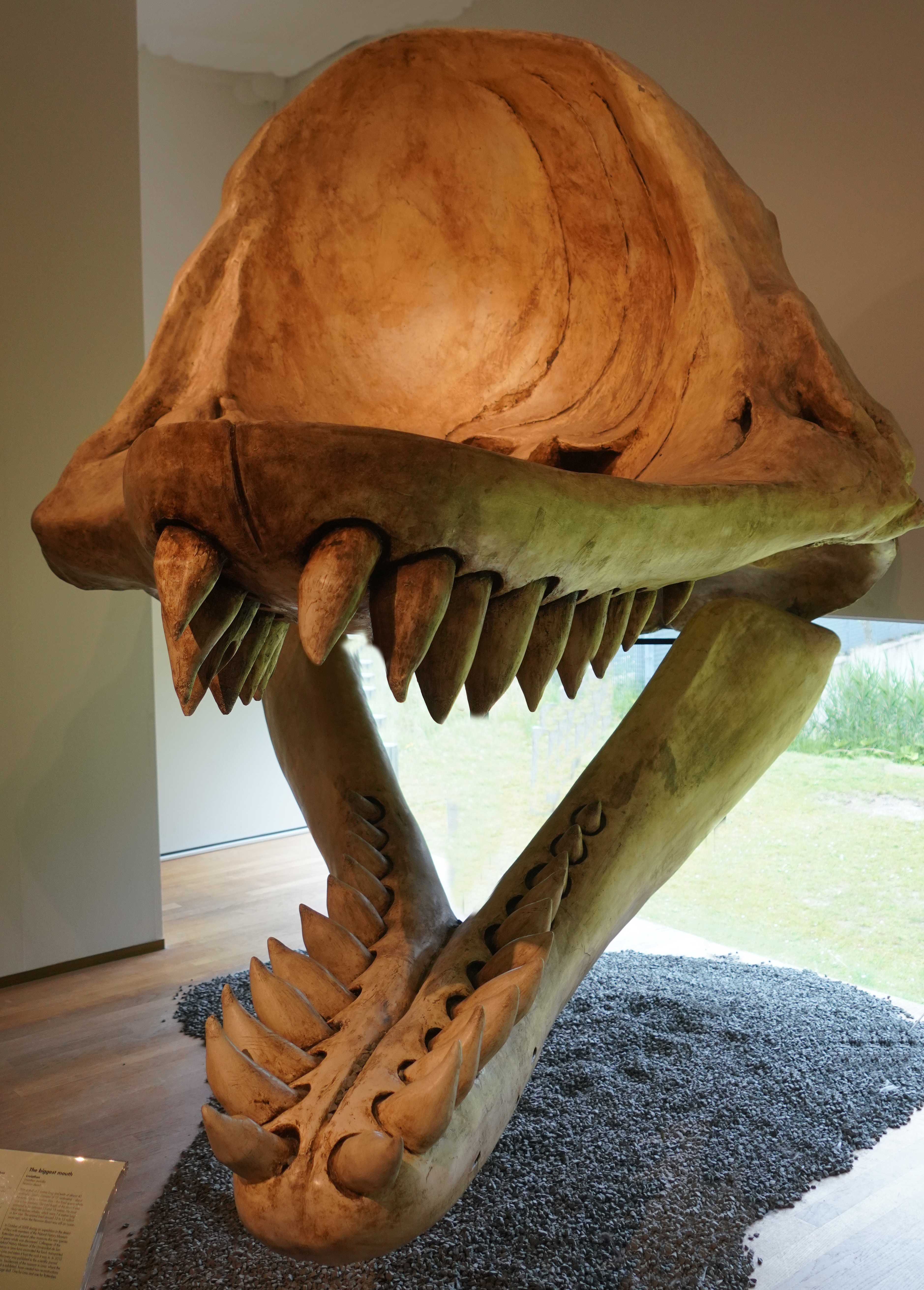 Het Natuurhistorisch (museum) in Rotterdam (20)